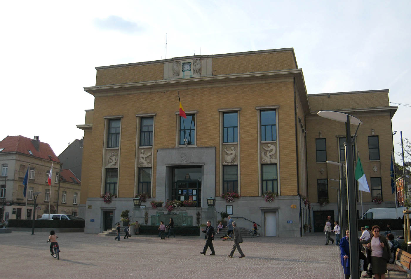 Koekelberg town hall